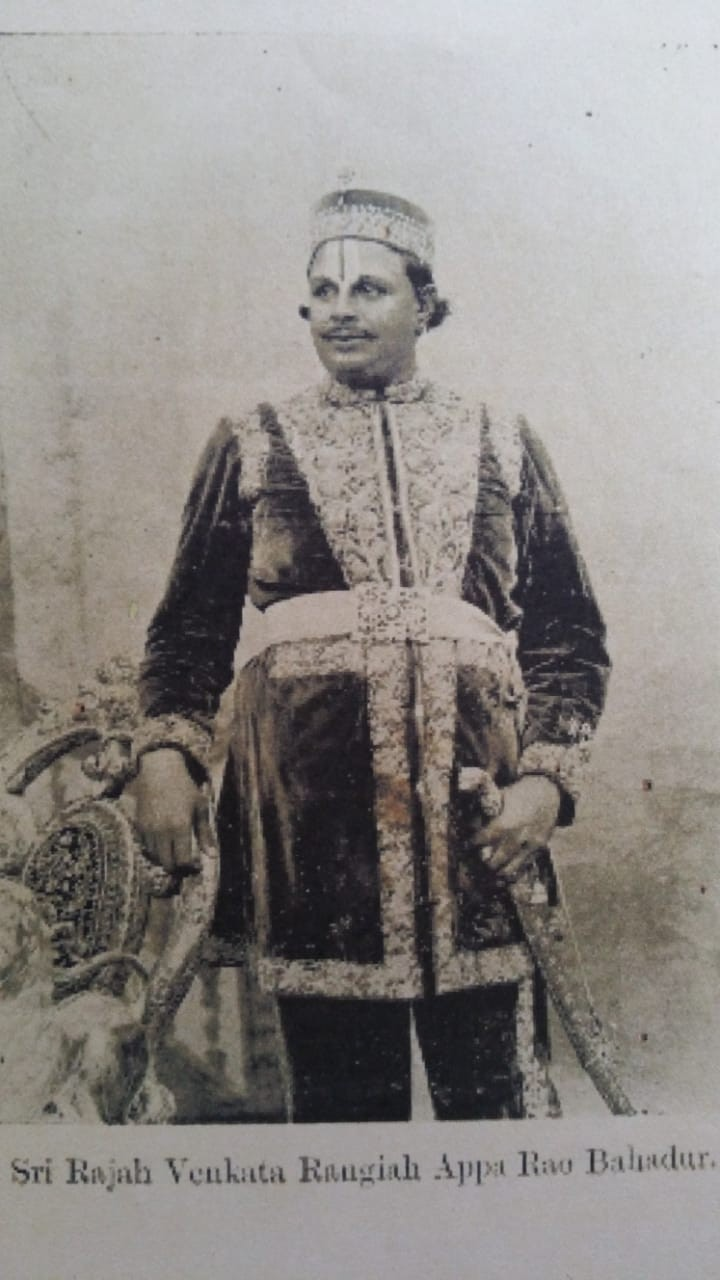 Sree Raja Rangayya Apparao Bahadur, Zamindar of Kapileswarapuram, Nuzvid Estates